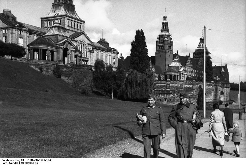 Stettin - Haken Terrasse